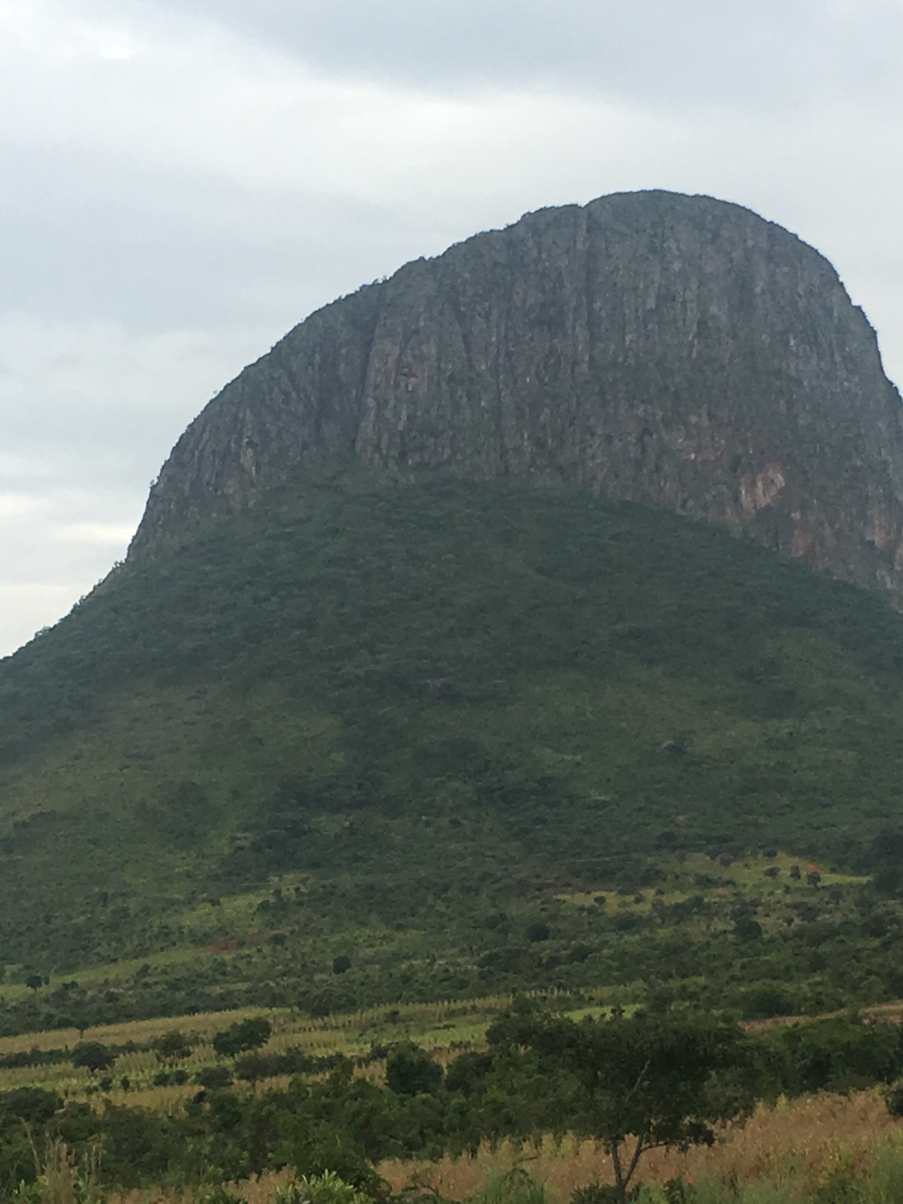 This is an image with the theme "Africa on the Move or Transport" from: Angola